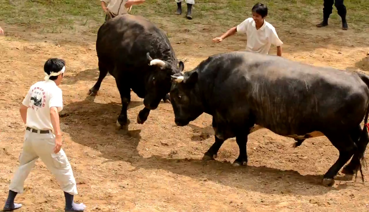 Bull wrestling (Ushi no tsunotsuki) in Yamakoshi, Nagaoka, Niigata Prefecture, Japan